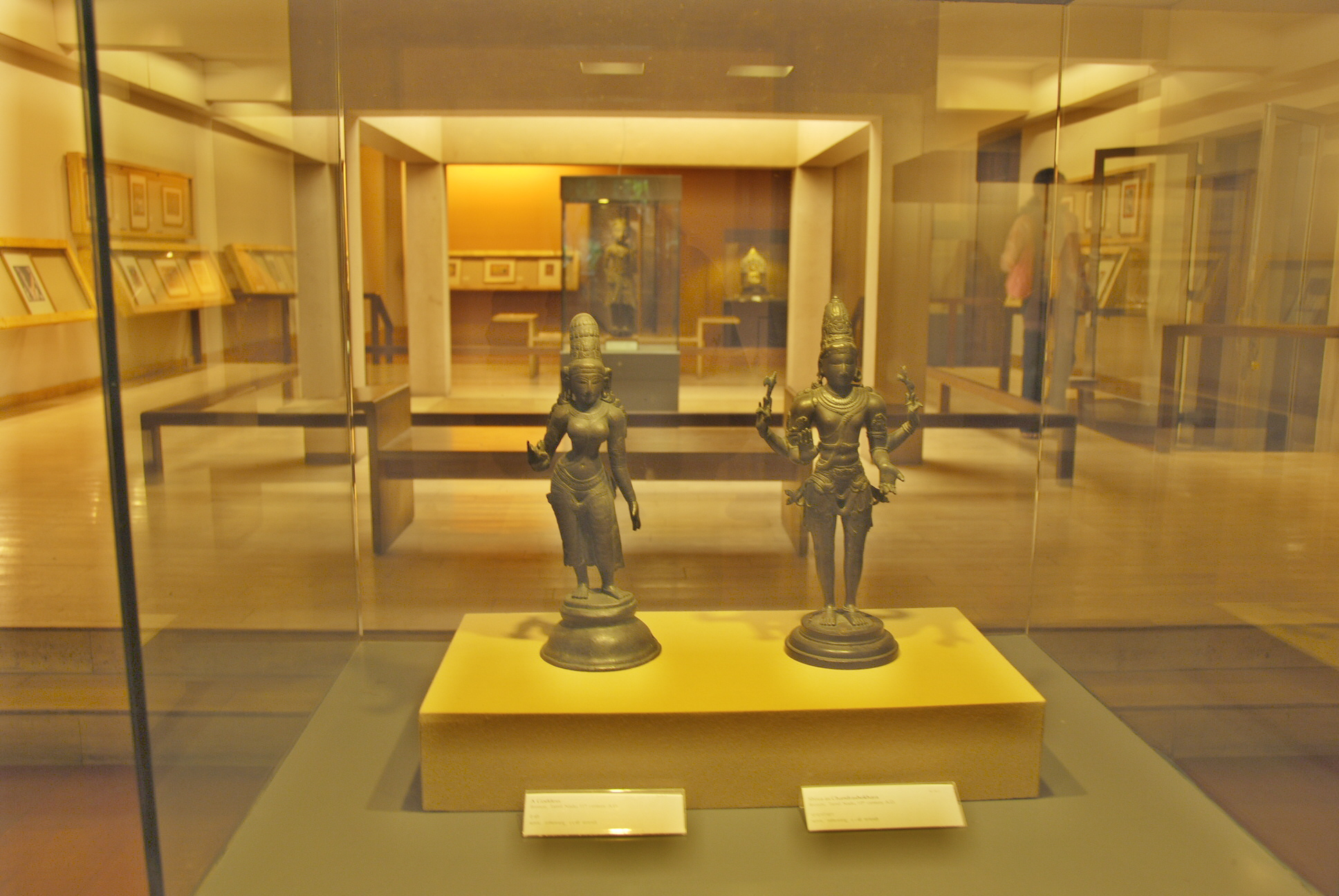 Prince of Wales Museum second level gallery - Karl and Meherbai Khandalavala collection